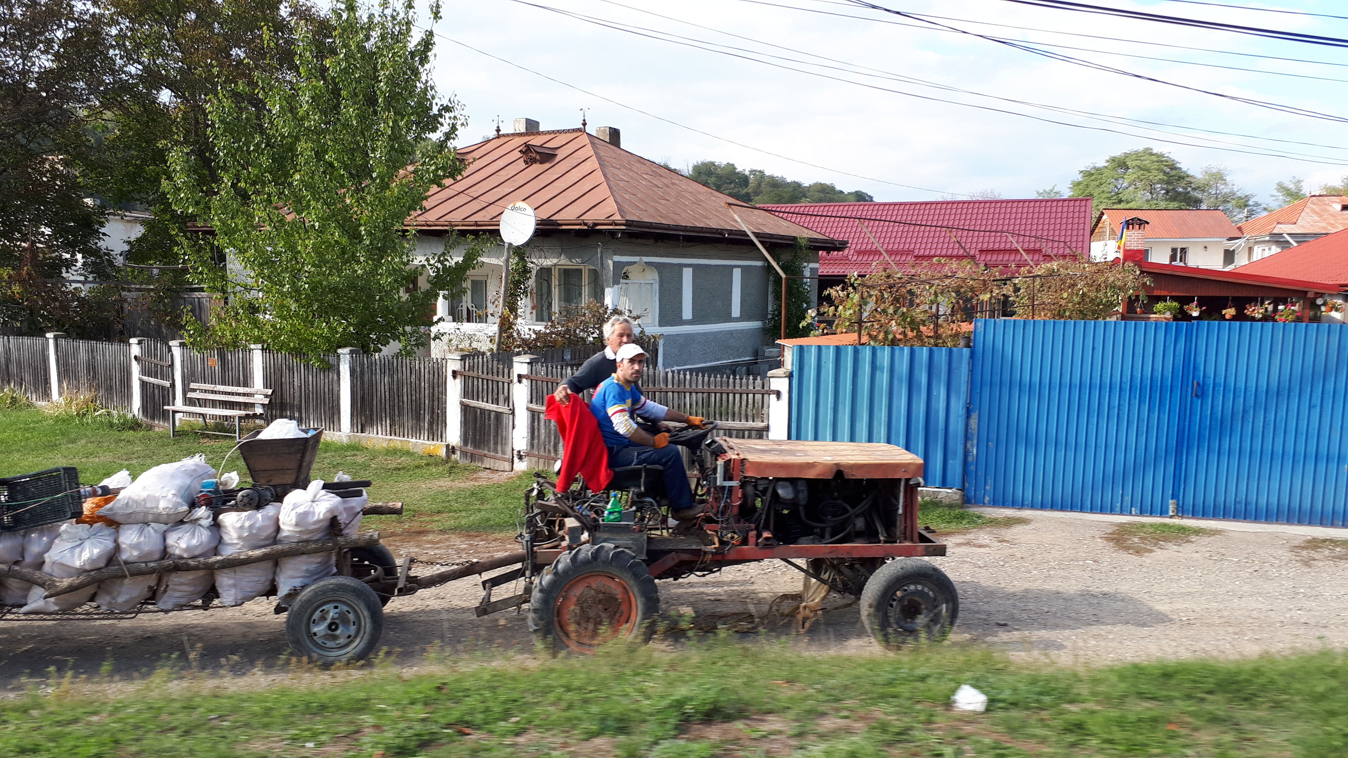 Tescani, Bacau region. October 2017